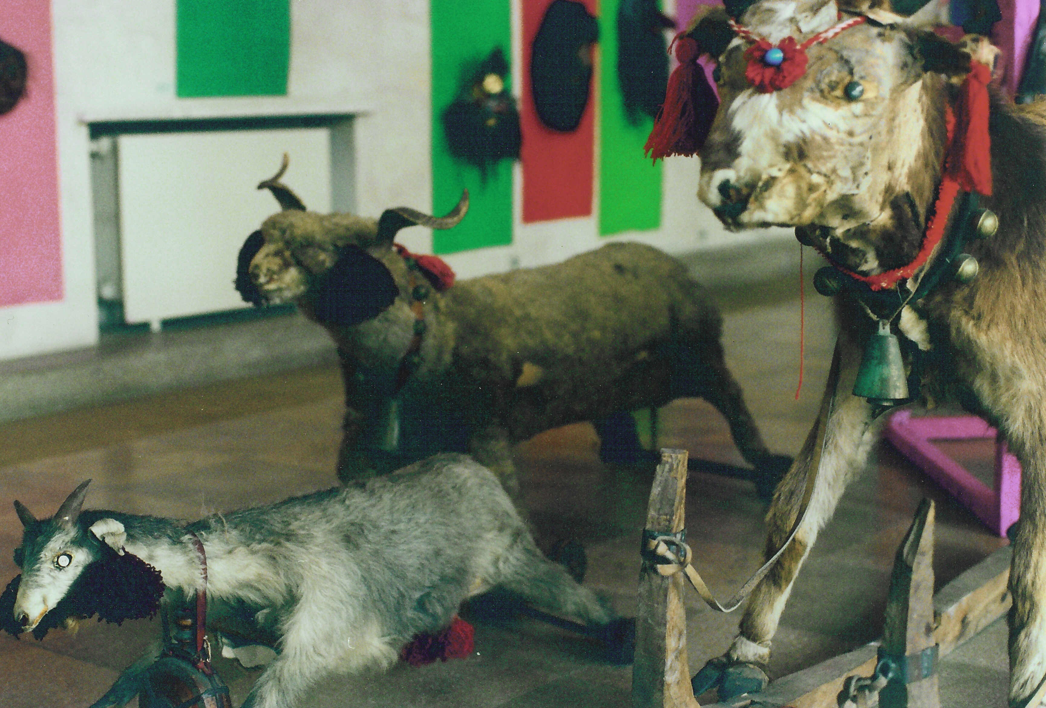 Wheeled effigies of a sheep and a goat, and a sled in the form of a cow, made from actual animal hides, used for Romanian peasant festivities associated with the period between Christmas and Epiphany. Museum of the Romanian Peasant, Bucharest, Romania. (Muzeul Ţaranului Român, Bucureşti, România.) See The Masks Customs on the site of that museum for some discussion of related traditions, though these particular artifacts are not mentioned.